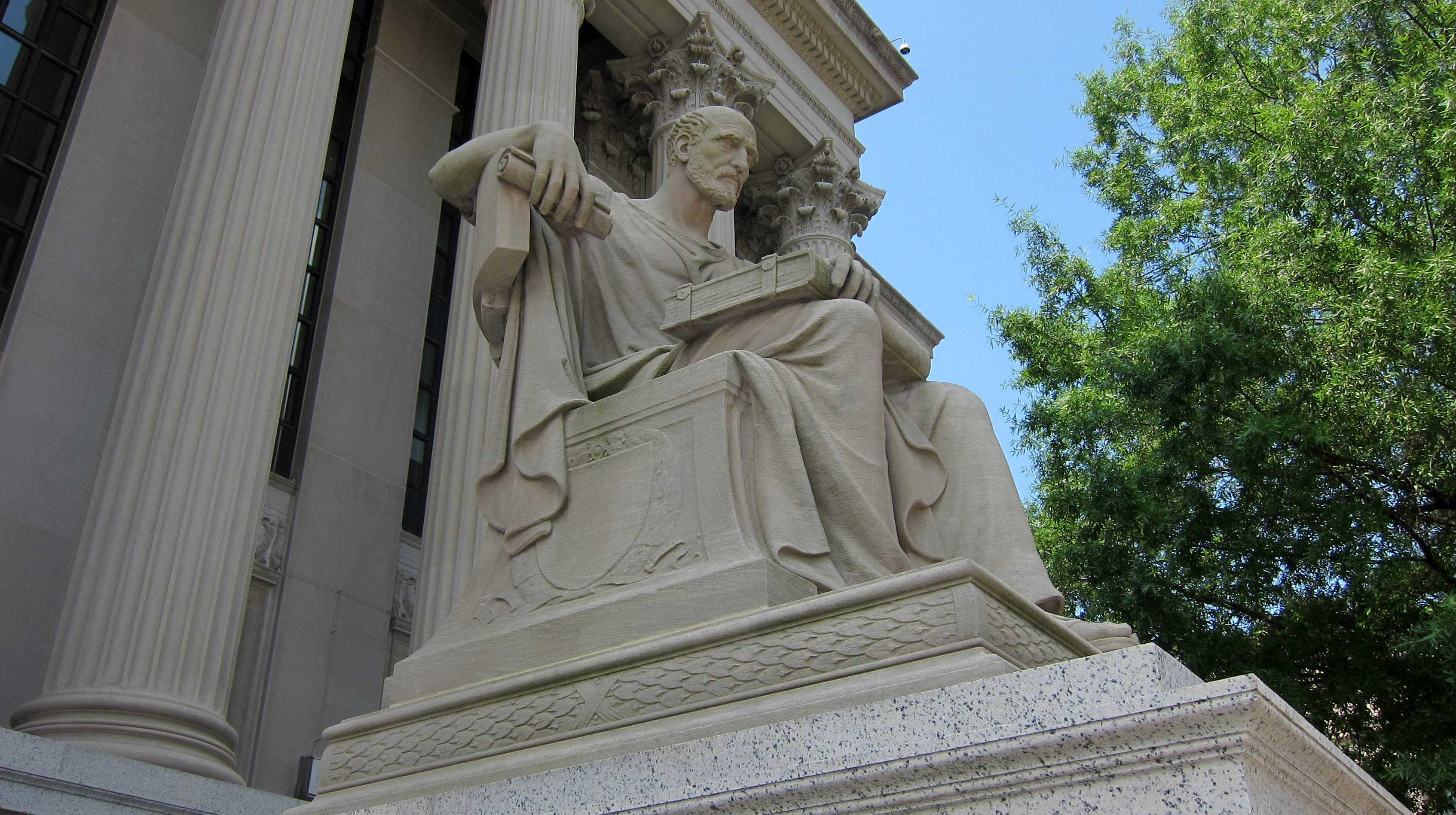 Past (1935, Robert Aitken) located on the northwest corner of the National Archives Building in Washington, D.C.